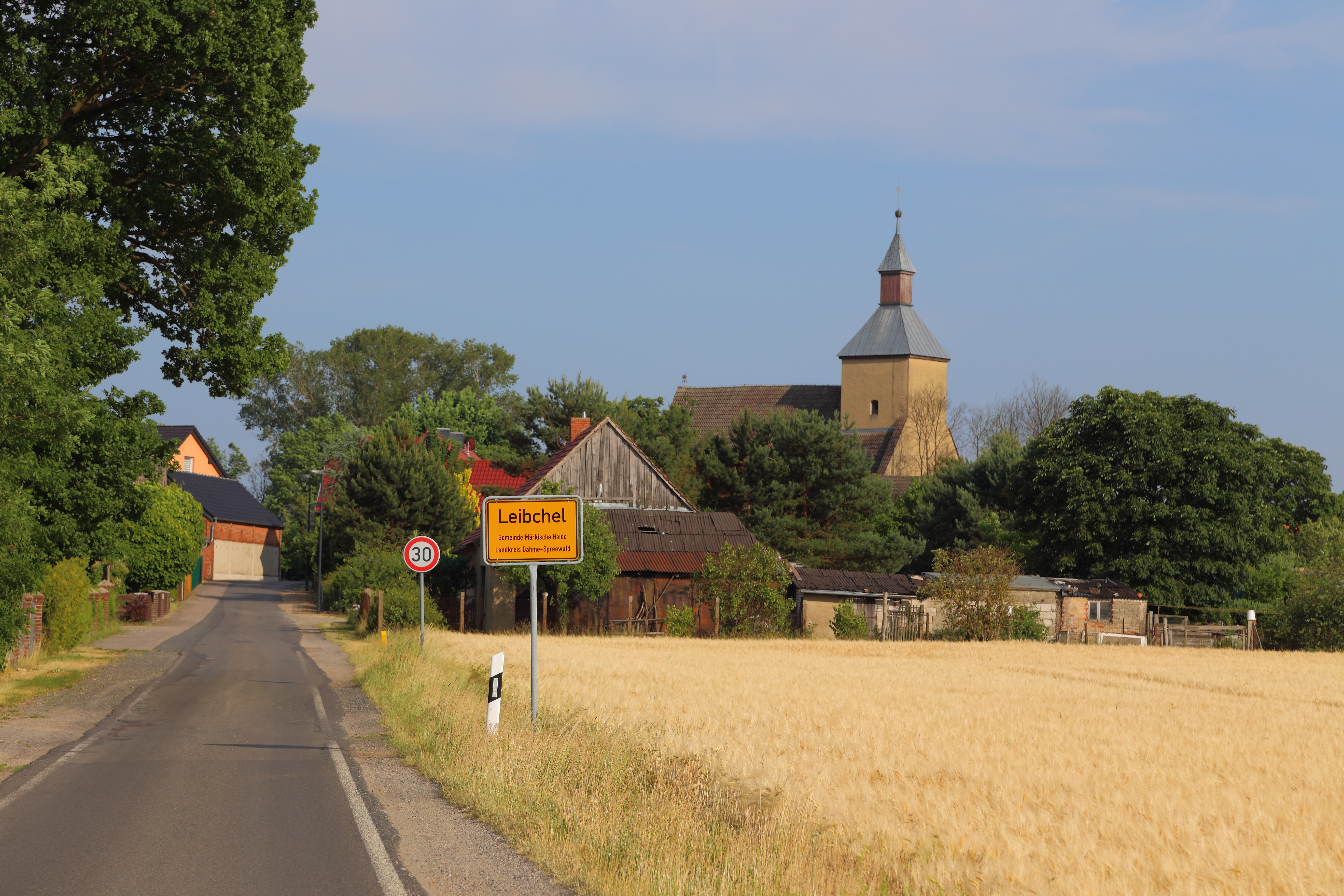 View of Leibchel, district of Märkische Heide, Landkreis Dahme-Spreewald, Brandenburg, Germany. The church is the Protestant Village Church (Dorfkirche.